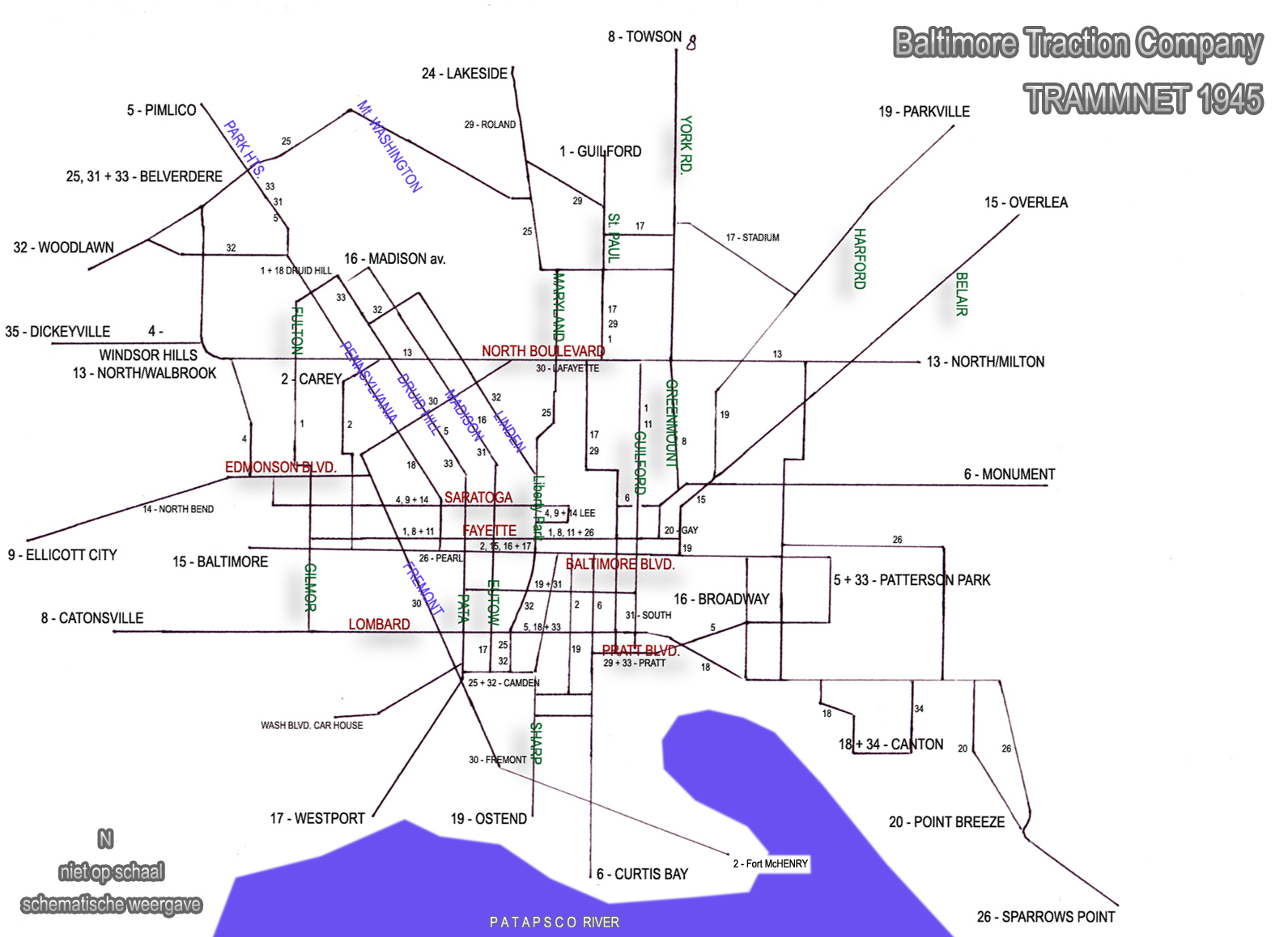 Map of tram network in Baltimore in 1945. Map drawn by myself in Photoshop 7.